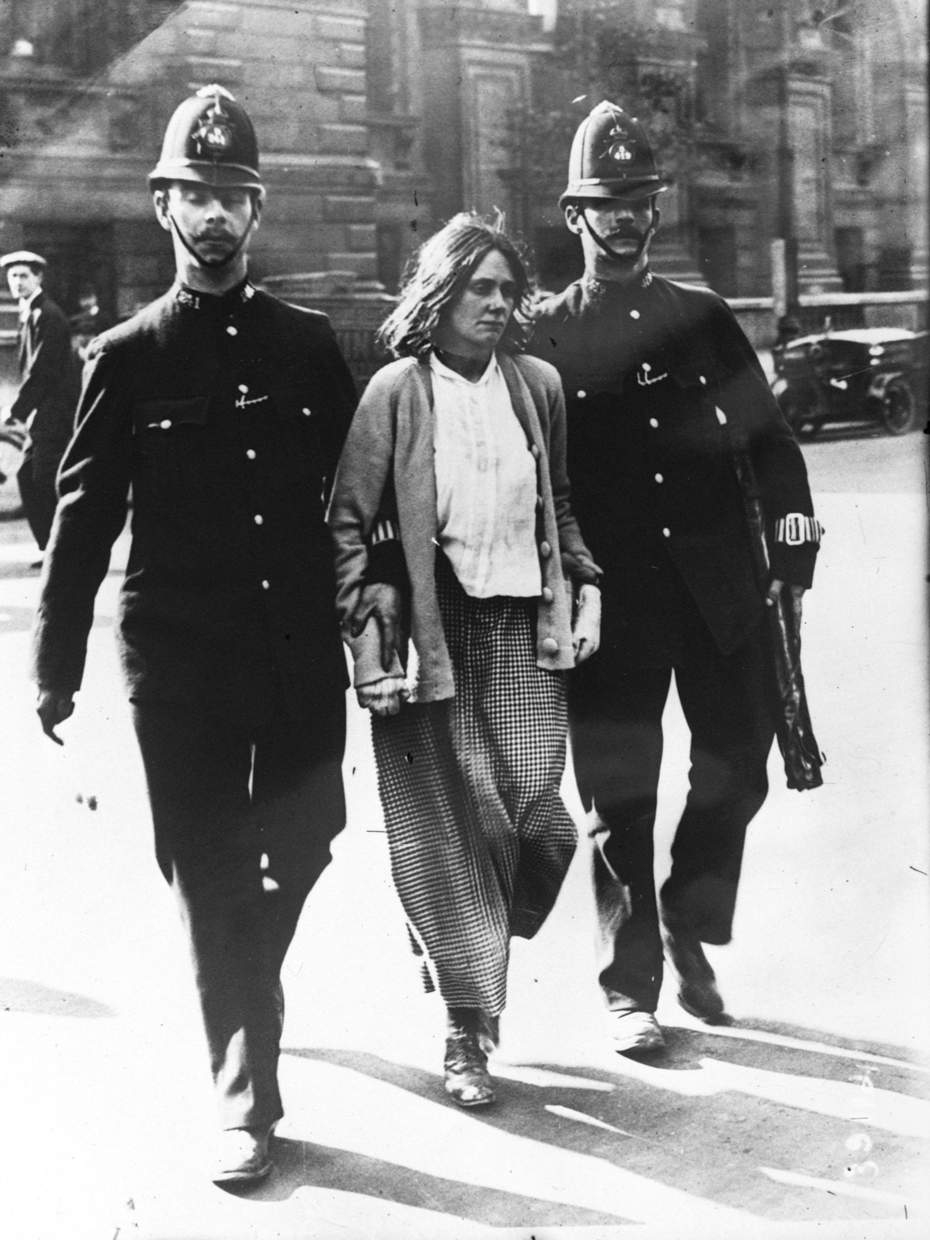 A suffragette arrested in the street by two police officers in London in 1914. The Daily Mirror identifies this as the arrest of Dora Thewlis in March 1907 (see File:1907 arrest of Dora Thewlis.jpg), but it doesn't look like the same woman or the same clothing. The Mirror image and this show that it took place outside Buckingham Palace, so it was probably part of this. Also see "Kate Frye’s Suffrage Diary: Buckingham Palace, 21 May 1914".